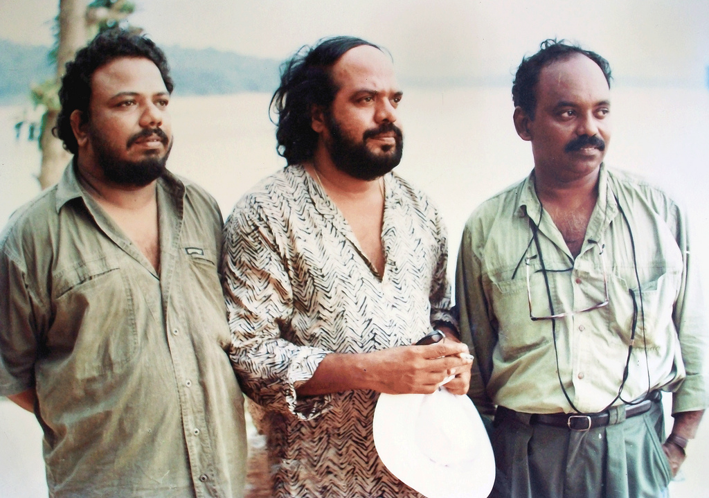 Script writer Lohita Das, Director Bharathan and cinematographer Ramachandra Babu at the location of Malayalam Film VENKALAM.